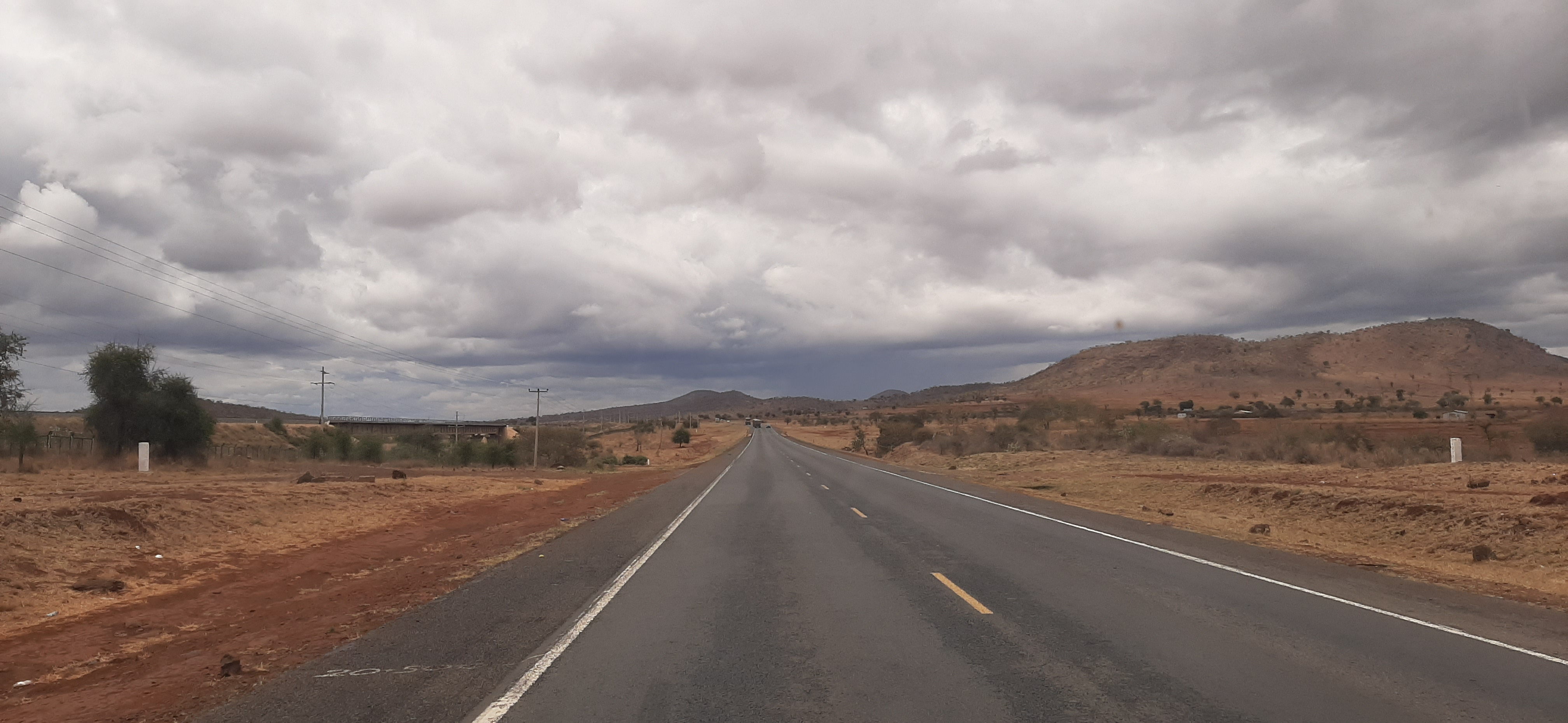 This is an image with the theme "Africa on the Move or Transport" from: Kenya